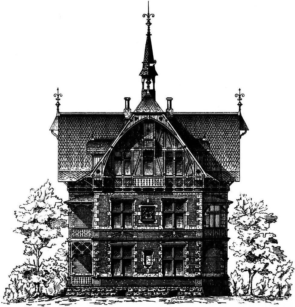 Design for a villa, front elevation.